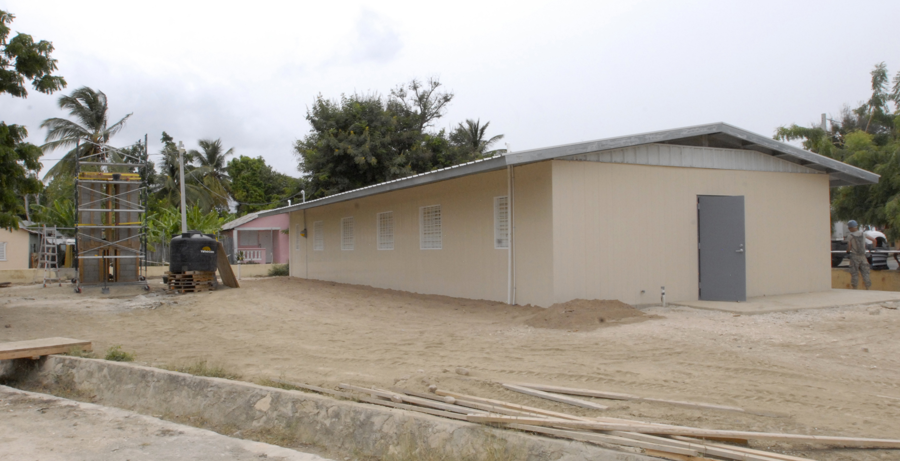 A US military-built medical clinic at Vicente Noble, Dominican Republic, was among the buildings constructed in the Barahona province as part of joint-military exercise "Beyond the Horizon 2014." Dominican Republic's 5th Infantry Brigade, stationed at Barahona, and the 1st Infantry Brigade, stationed at Santo Domingo, as well as military representatives from Canada, Chile, Brazil, Colombia and Peru were also actively involved in the mission.